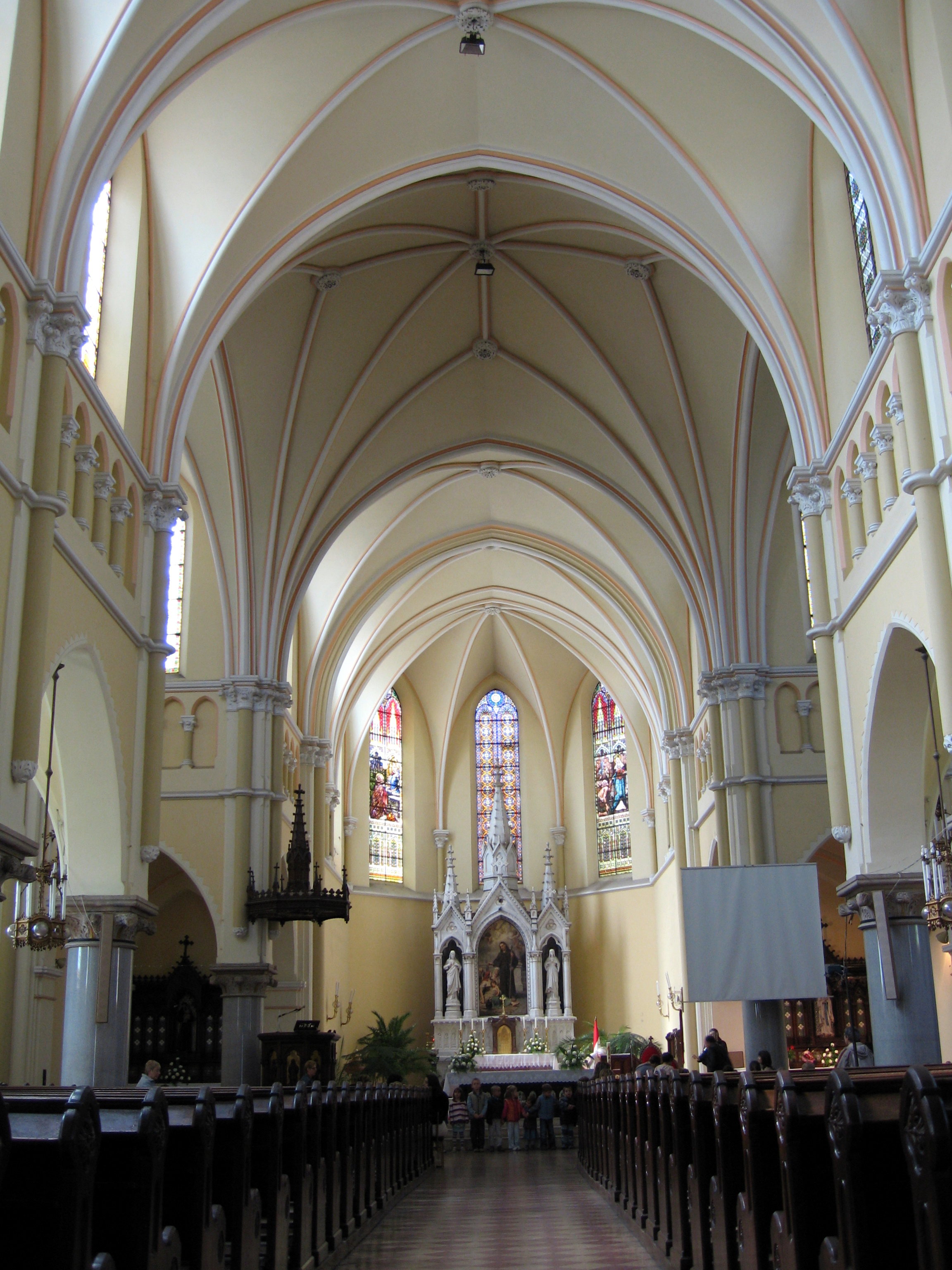 Szeged, Inside the church of St. Roch